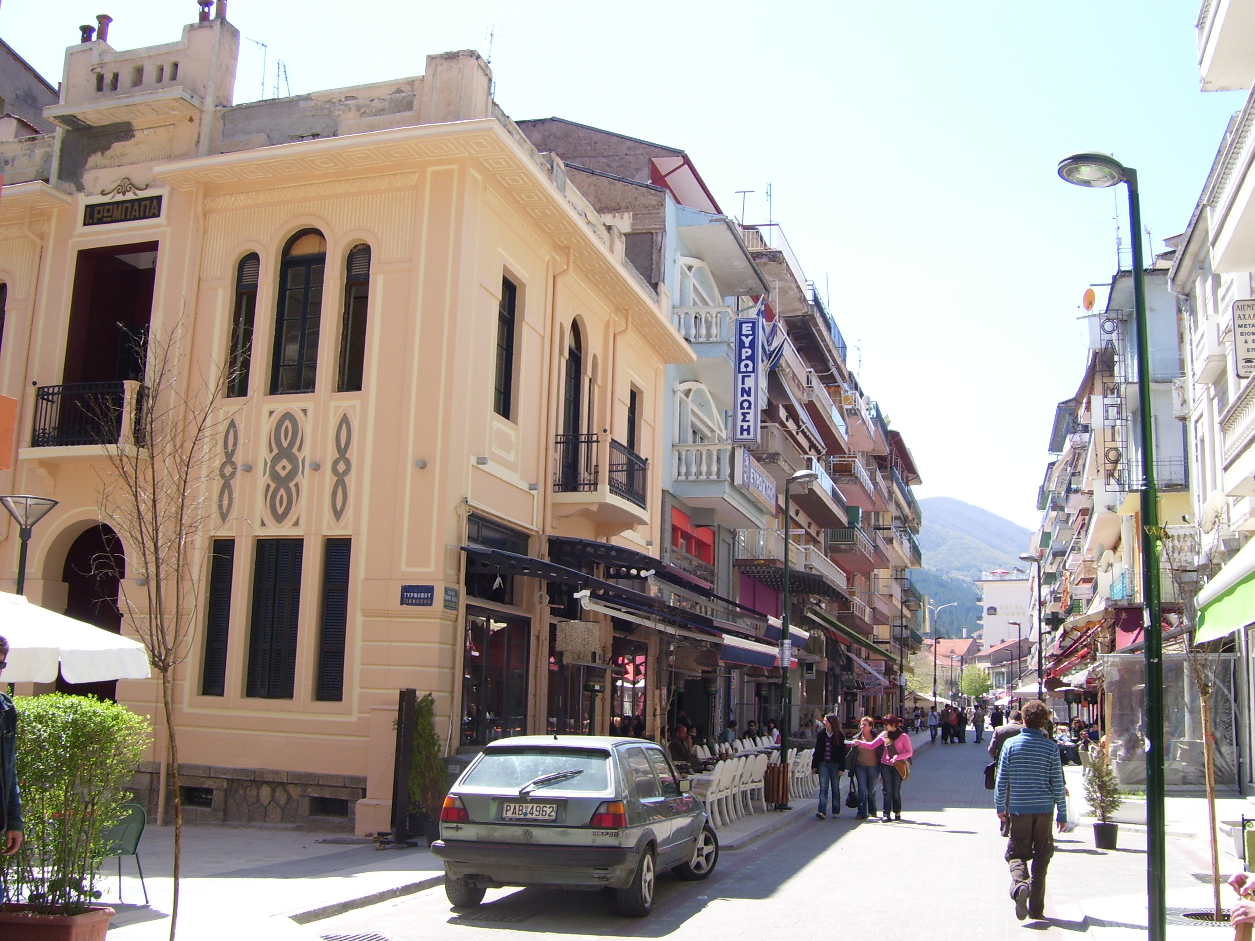 Main street of the city of Florina, West Macedonia, Greece.